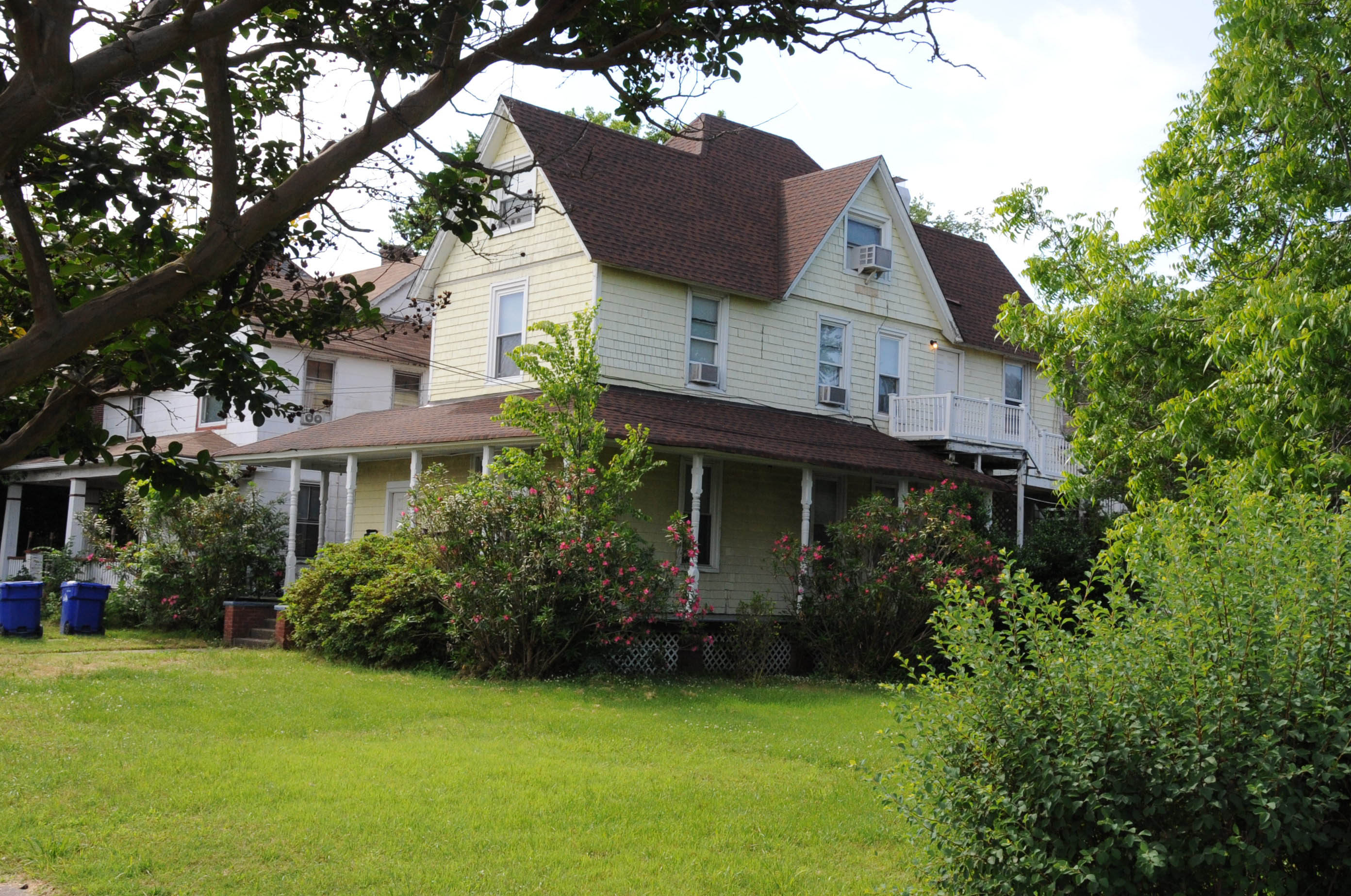 RESIDENTIAL SECTION OF PORTSMOUTH BUILT BETWEEN 1890 AND 1910. RESIDENCE AT 2713 BAYVIEW BOULEVARD WHICH FRONTS ON THE BAY; QUEEN ANNE STYLE. ONE OF THE MORE PROMINENT EXAM PLES OF THE STYLE IN THE DISTRICT